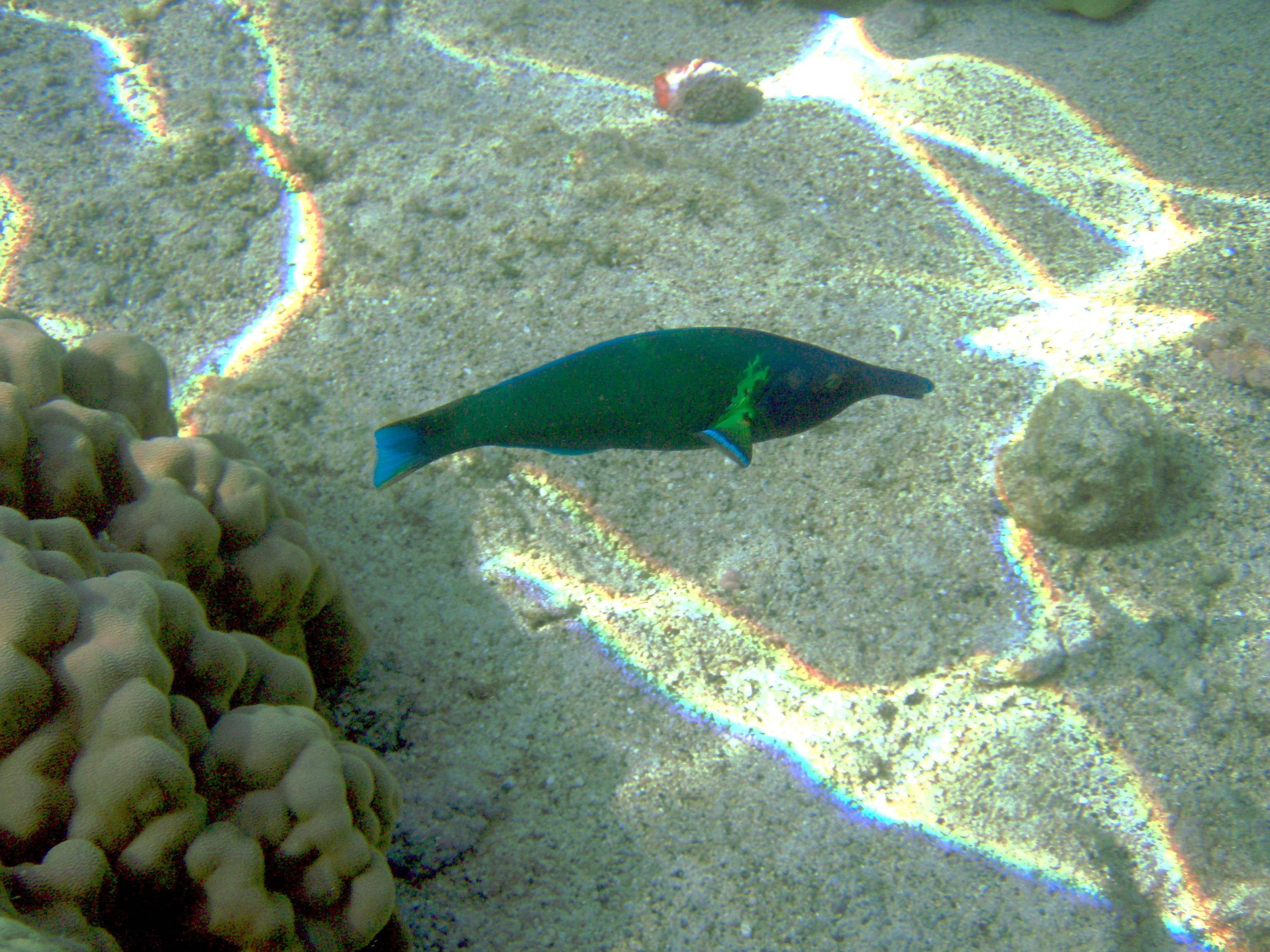 Bird Wrasse, Gomphosus varius and caustic